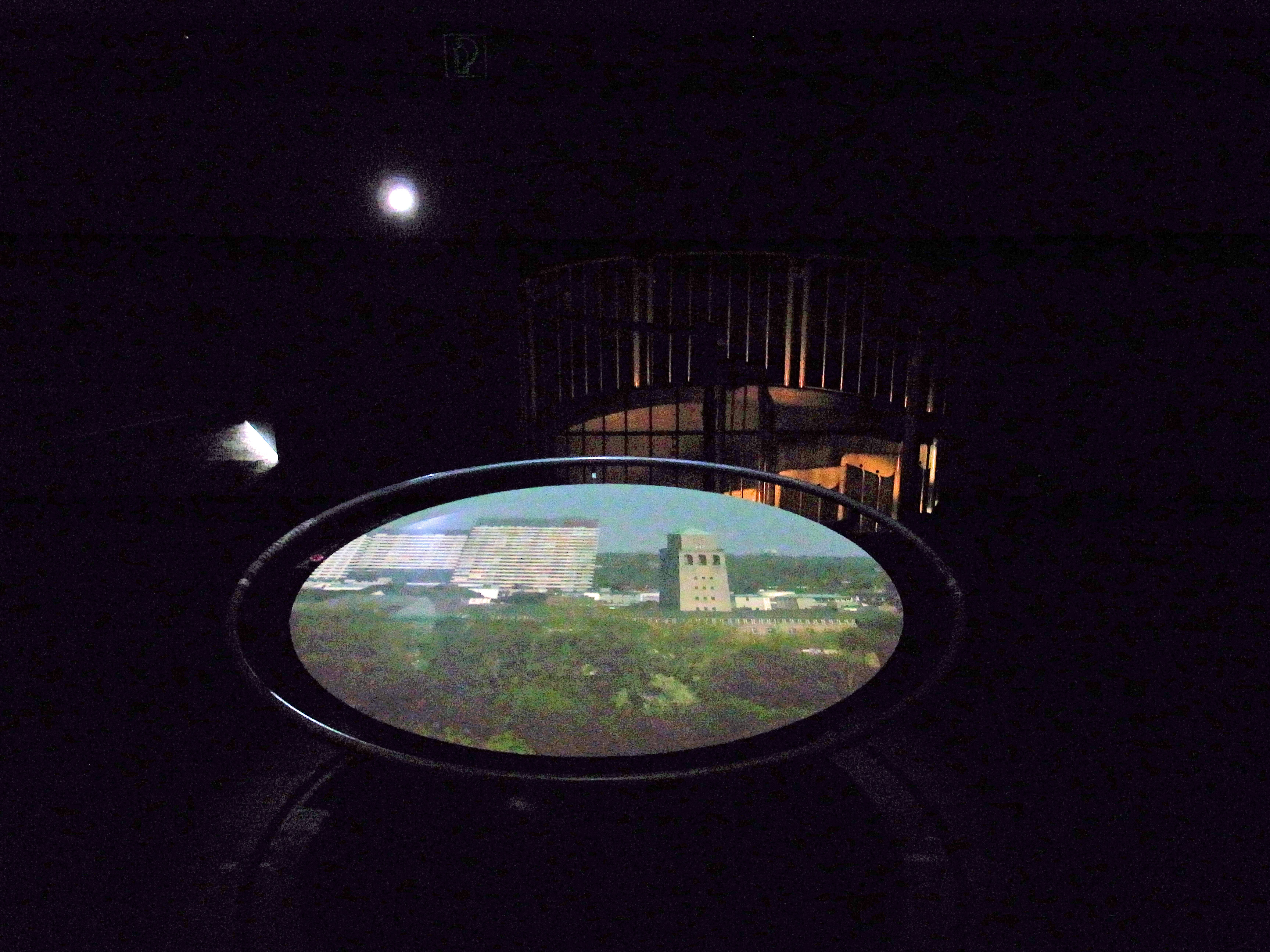 Camera obsura